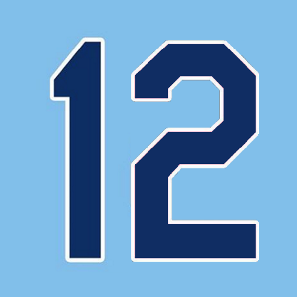 Tampa Bay Rays retired number.